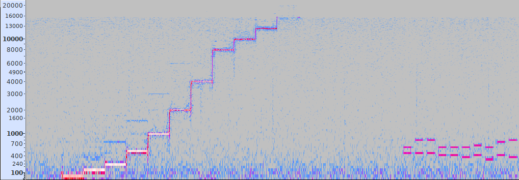 Spectrogram of XDR toneburst followed by pseudo-DTMF dualtones used by XDR to uniquely identify an album. Created using Audacity from the audio of a YouTube video playing the cassette “Cinéma Vérité” by Dramarama published by Chameleon Records in 1985. Note that because it is from YouTube, any tones higher than 16kHz have been cut off which affects the XDR tone burst. However, the DTMF tones are correct and spell out *DD774819B.